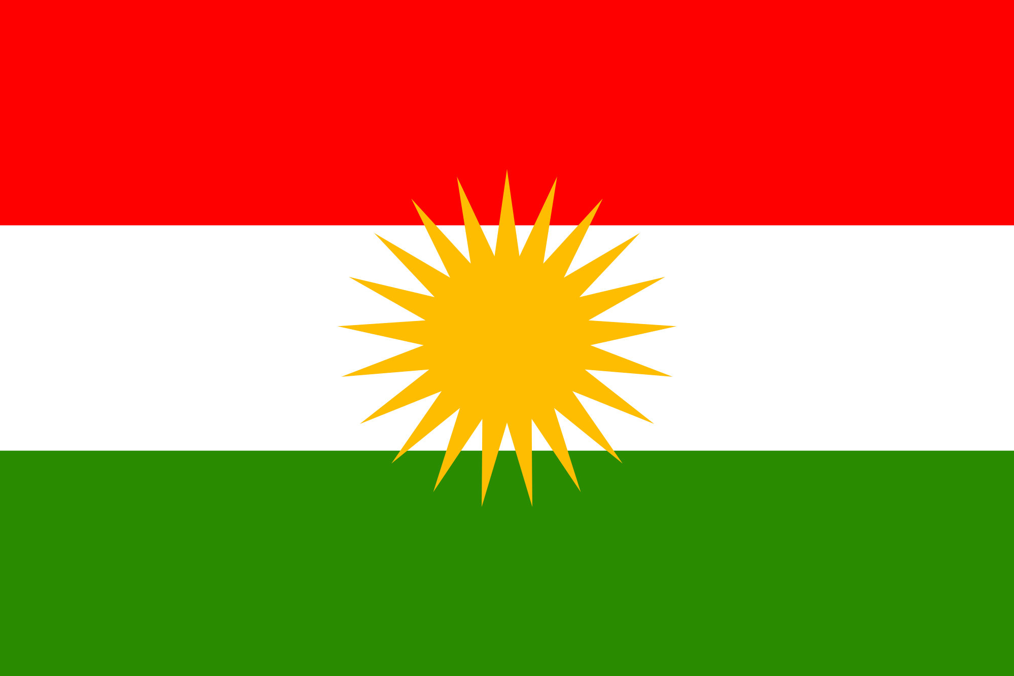 Kurdistan Flag